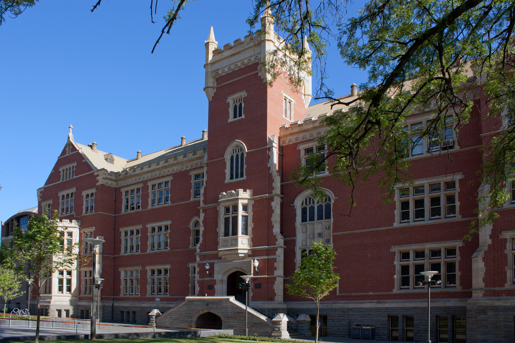 The Brookman Building, originally housing the South Australian School of Mines and Industries and later part of the South Australian Institute of Technology, is now part of the City East campus of the University of South Australia, which was founded in January 1991 through the amalgamation of the South Australian Institute of Technology and the Magill, Salisbury and Underdale campuses of the South Australian College of Advanced Education.